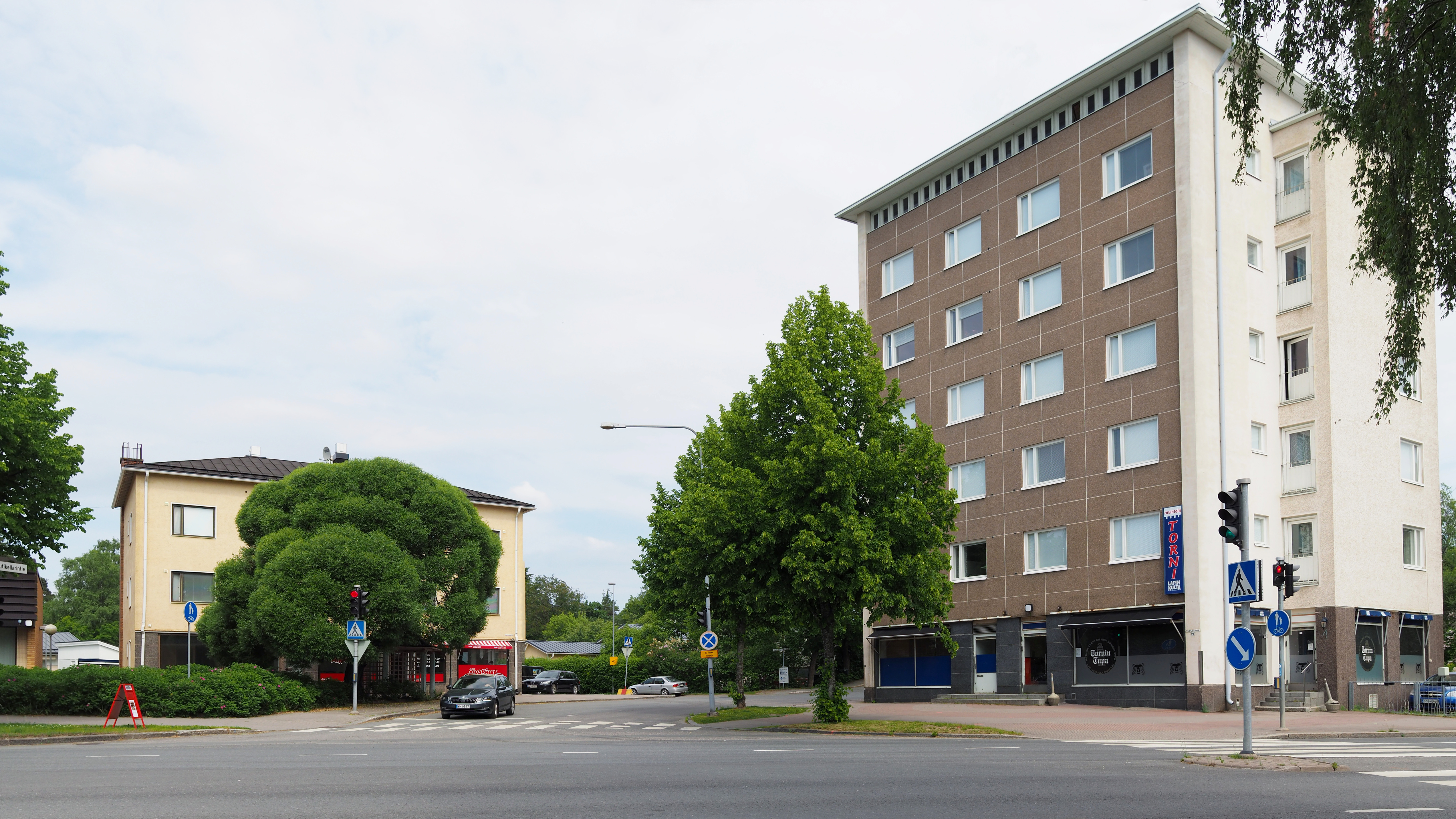 Hätilä suburb in Hämeenlinna. Barbecue restaurant in the background, pub on the right.